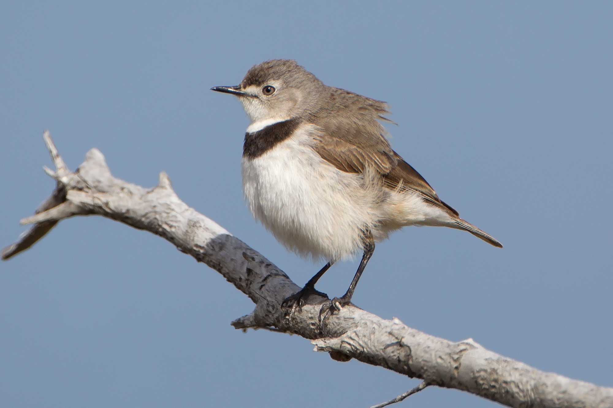 White-fronted Chat (Epthianura albifrons) female, Orielton Lagoon, Tasmania, Australia